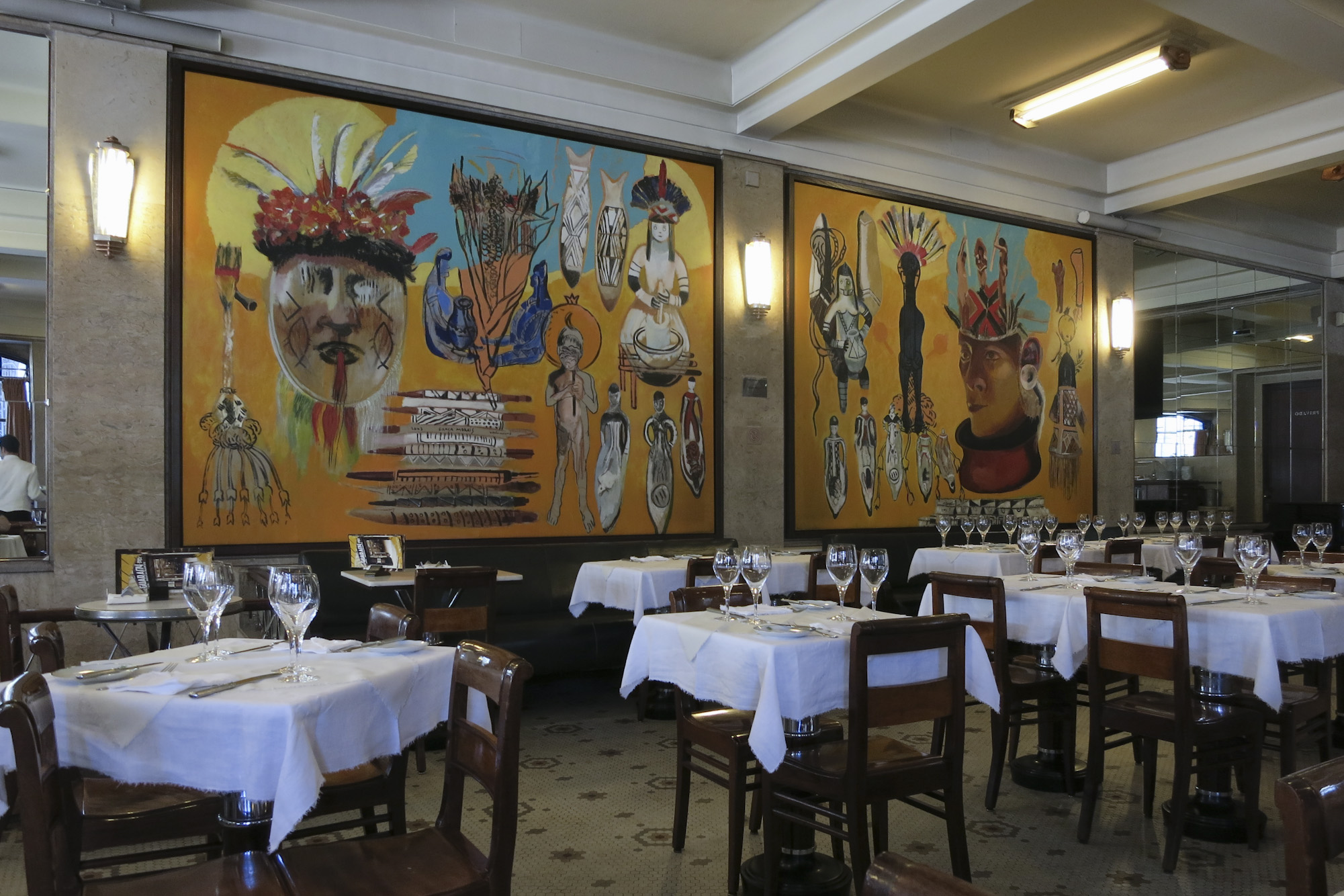 Café Guarany, Porto